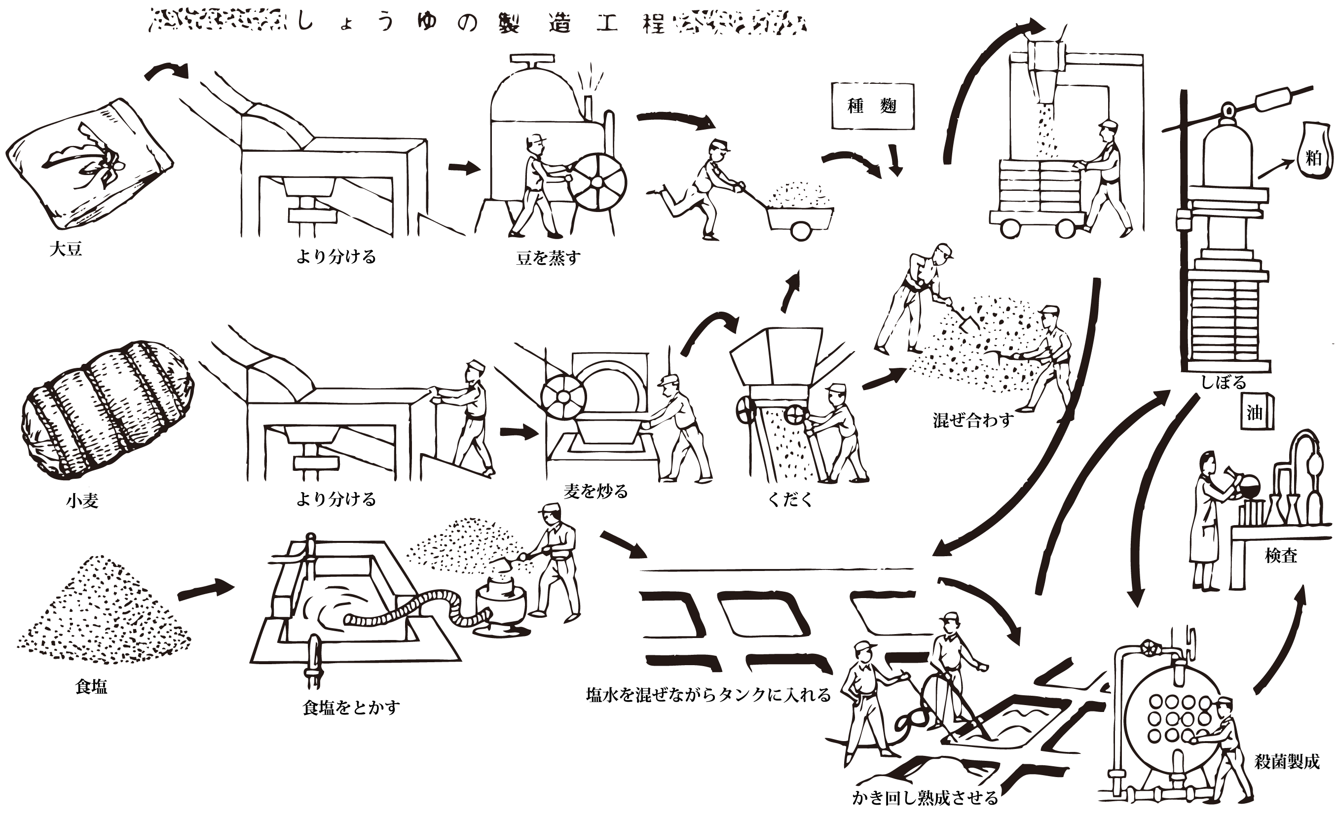 Process of Production of Soy Sauce